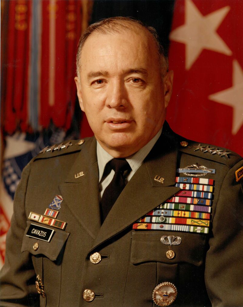 General Richard E. Cavazos (born 1924), U.S. Army, First Hispanic U.S. Army 4-star general